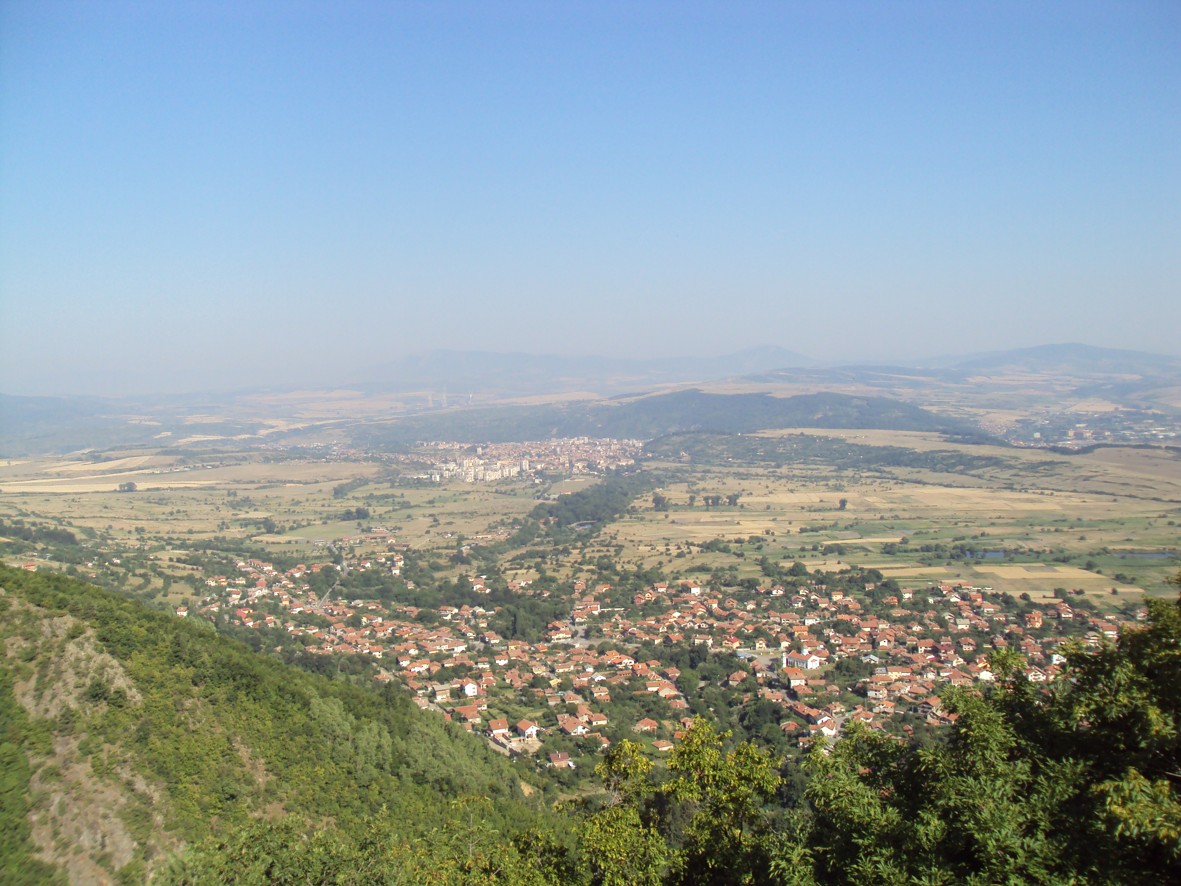 Rila National Park